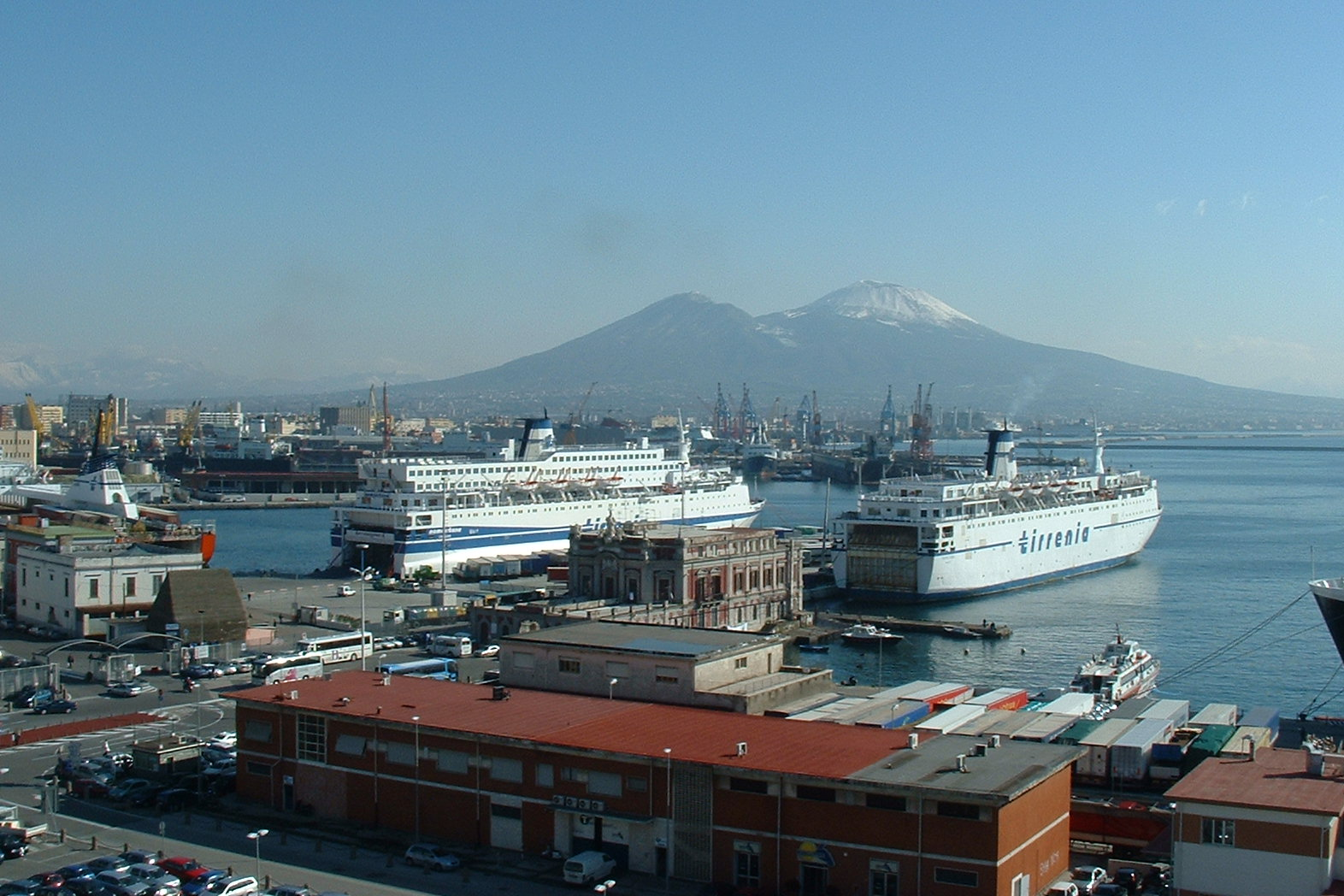 Naples (harbour)